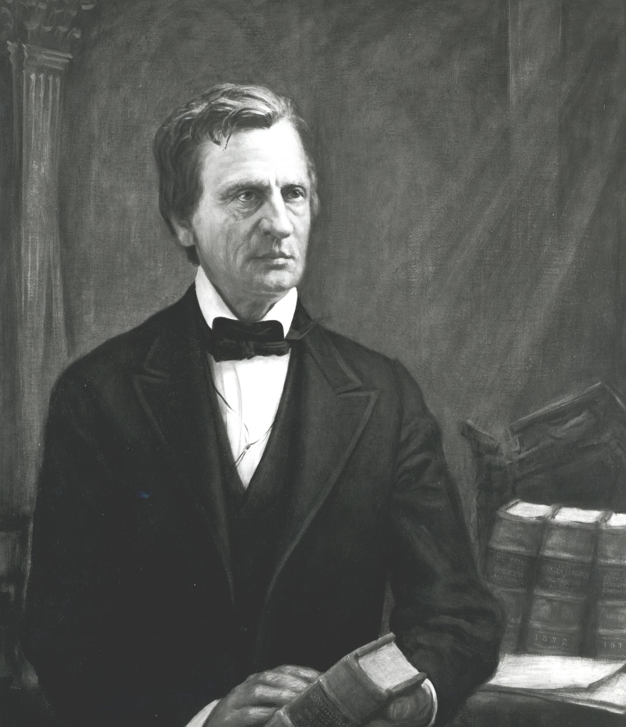 Public domain photograph of U.S. Secretary of State William M. Evarts, obtained from [1]. Category:United States history images 23:20, 3 June 2004 Blankfaze 170x261 (8545 bytes) (Public domain photograph of U.S. Secretary of State William M. Evarts, obtained from [ msg:PD )